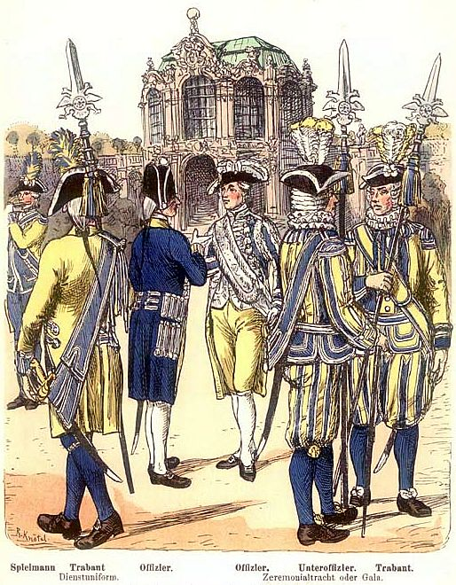 Soldiers of the Swiss Guuards in Saxony, cropped version of File:Knoe17 12.jpg